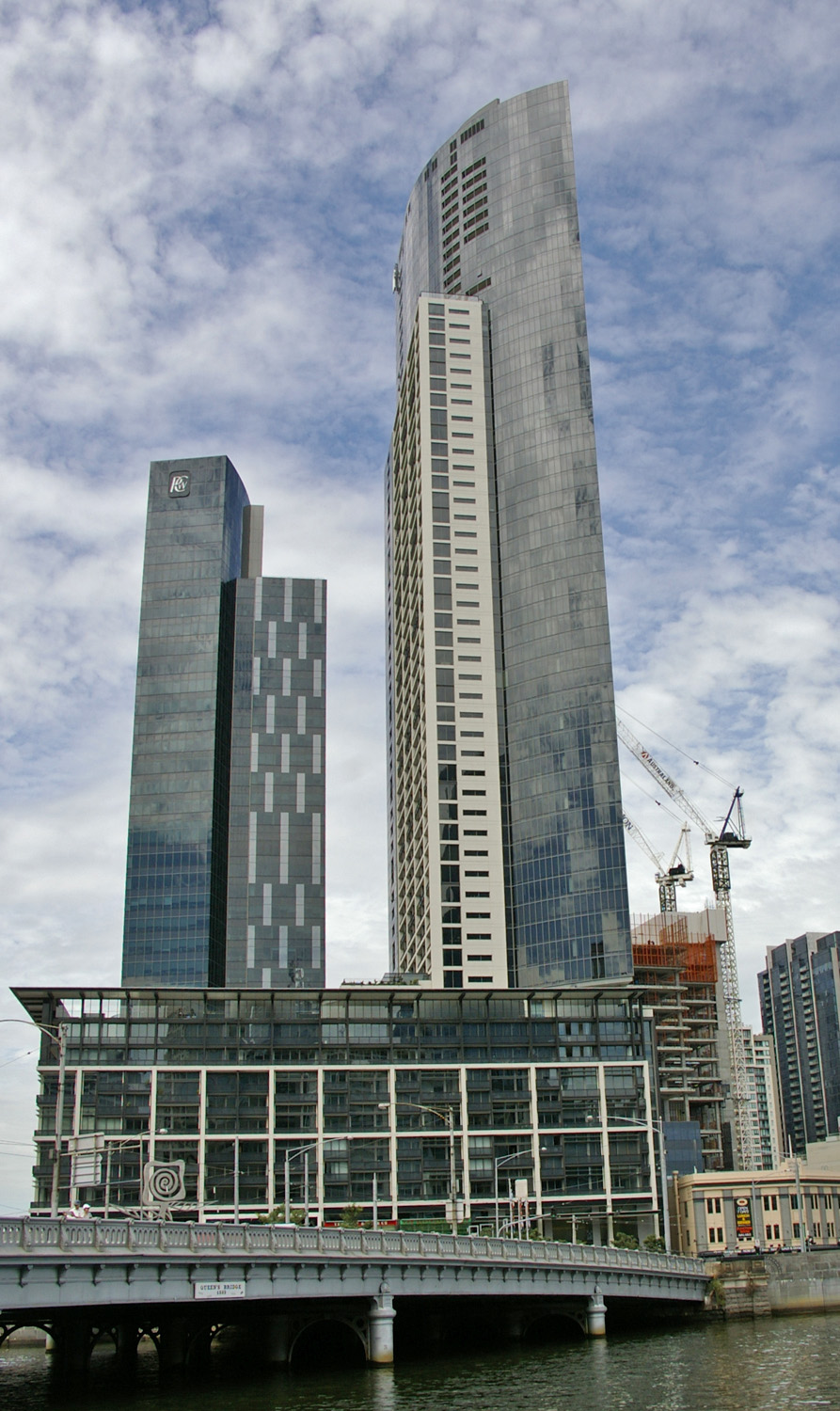 Freshwater Place, Yarra River, Melbourne.